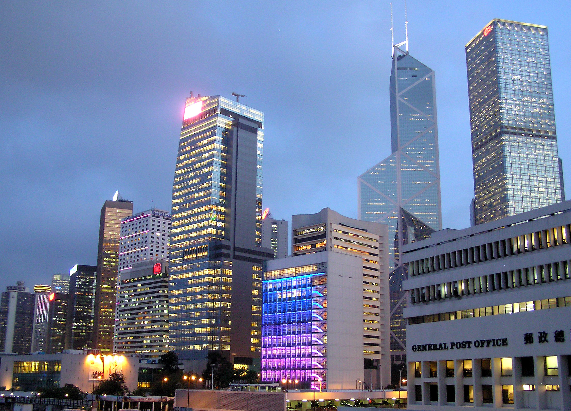 Central, Hong Kong